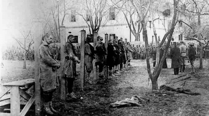 Hanging of Serbs in August 1914, Trebinje, Bosnia and Herzegovina, Austro-Hungarian Empire.